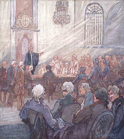 Lower Canada Legislative Assembly in 1792 (Chapel of Bishop's Palace, Quebec City), oil on canvas laid down onto cardboard